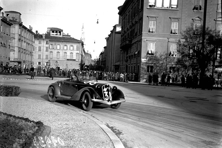 Ercole Boratto e Guido Mancinelli at Mille Miglia in Italia on 5 Aprile 1936 in Alfa Romeo 6C 2300 s/n 700635. The ran "on alcohol" and was owned by Benito Mussolini at the time.